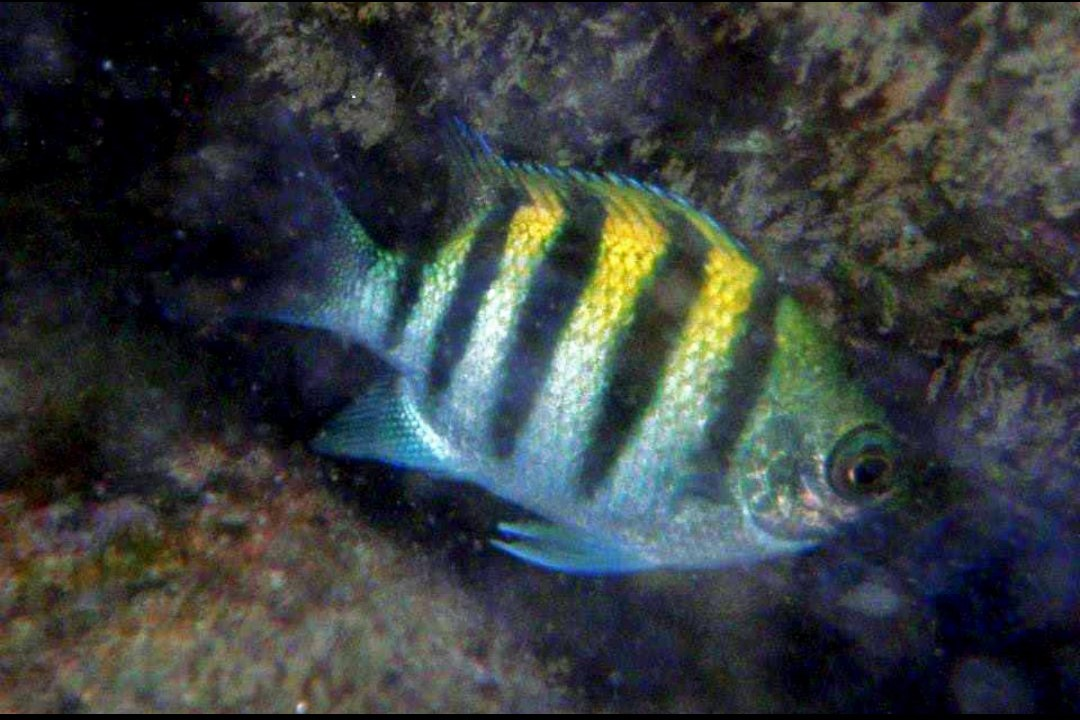 Indo-Pacific Sergeant Fish (Abudefduf vaigiensis) in Sea of Dibba, Fujairah, UAE